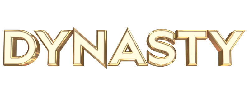 Image